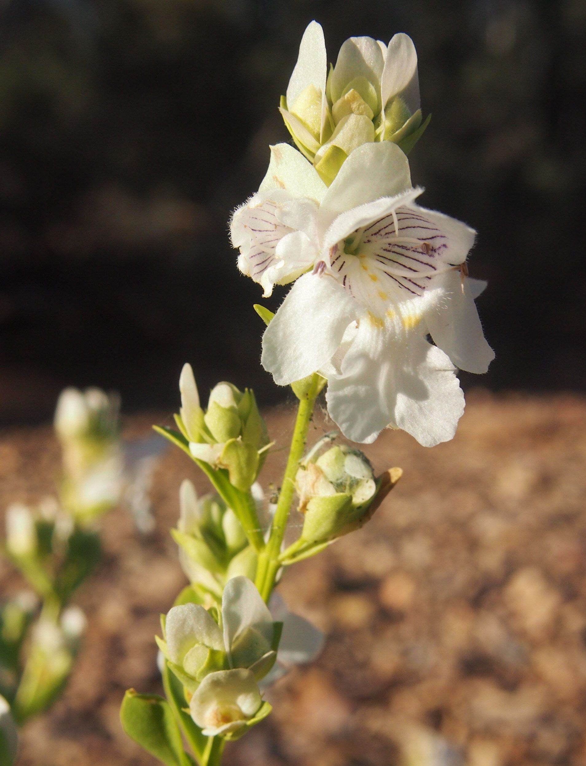 Prostanthera striatiflora - flower